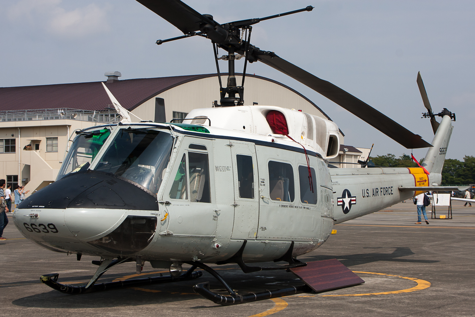 Aircraft: Bell UH-1N(sn: 96639) Squadron: 459AS / 374AW Base: USAF Yokota AB(RJTY) Tokyo, Japan 19/09/2010 JGSDF Camp Tachikawa(RJTC) Tokyo, Japan